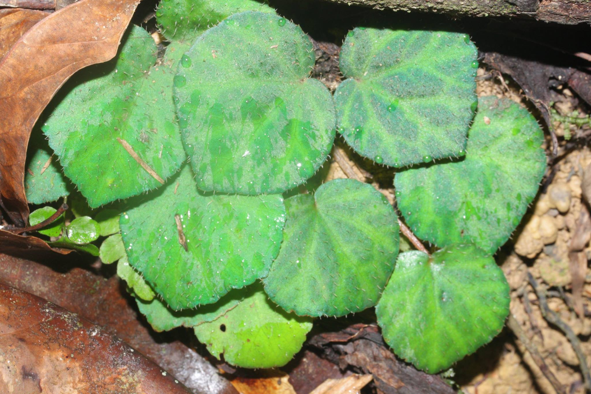 Begonia Tagbanua - Raab Bustamante